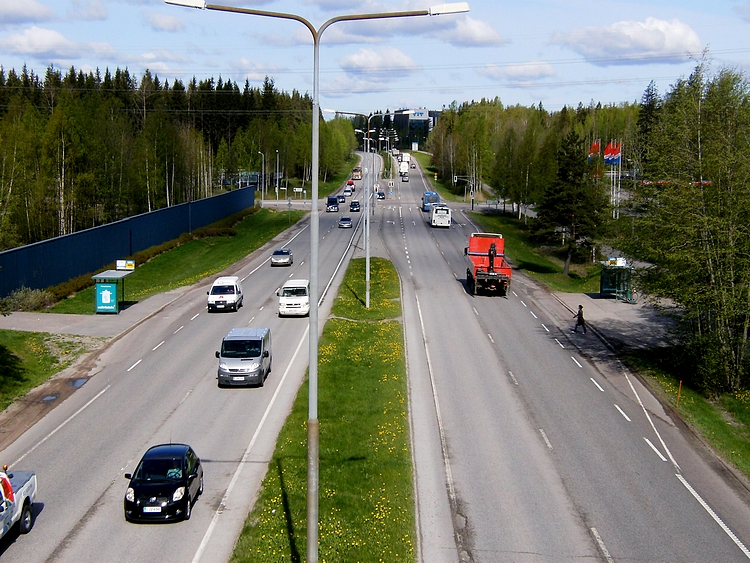 Regional road 120 (Vihdintie) in north-western Helsinki, Finland, direction Vihti